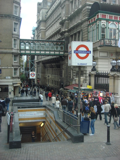 Villiers Street